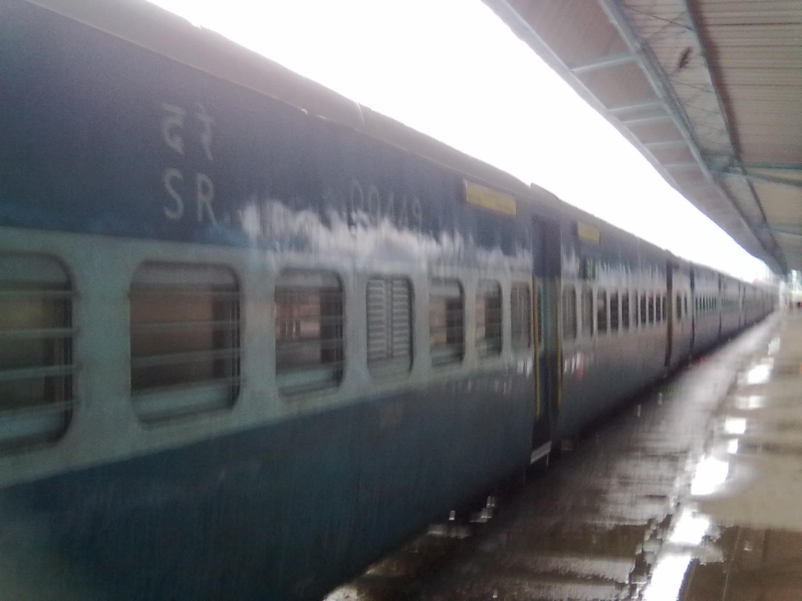 Sethu Express in Chennai egmore